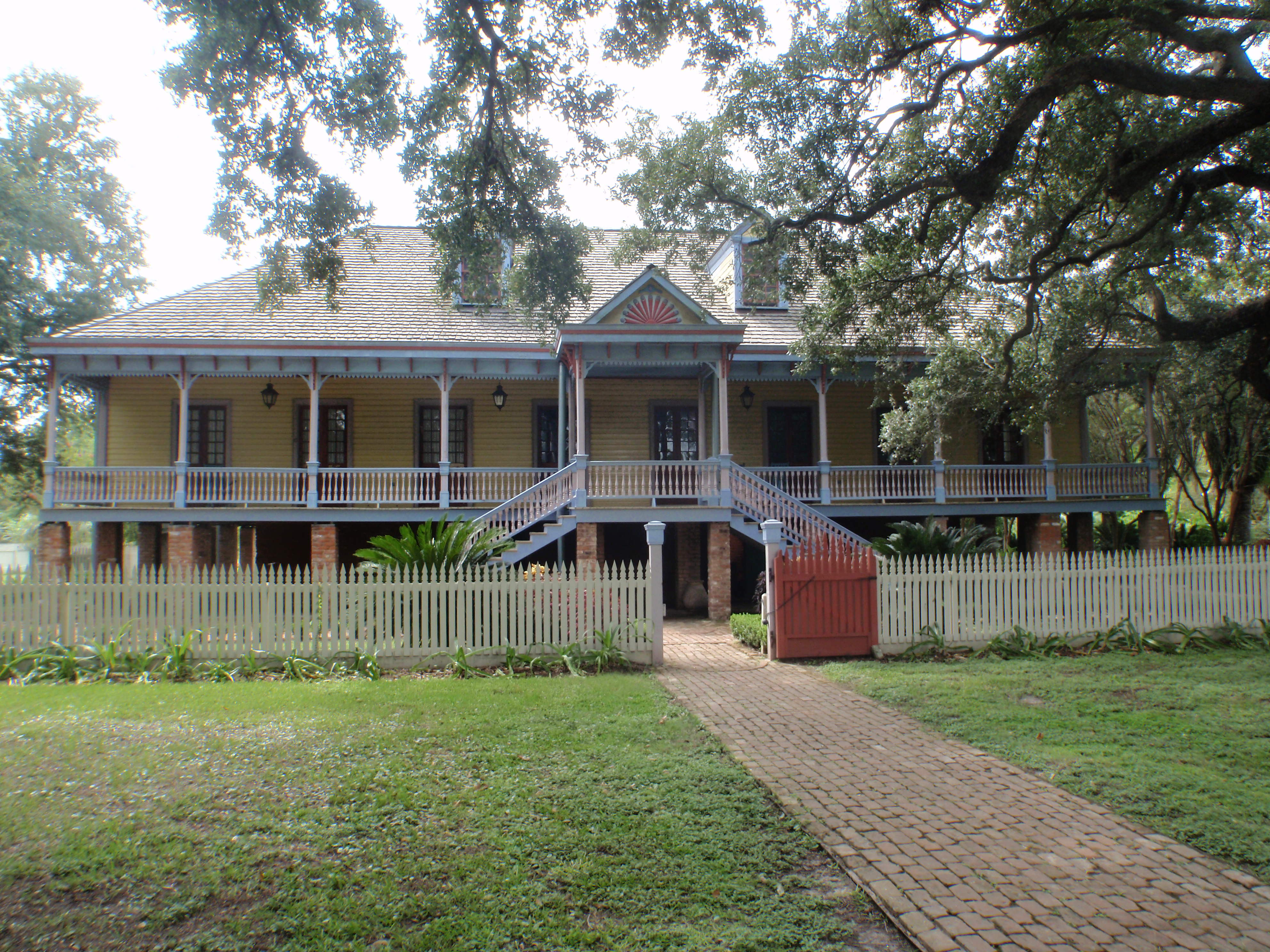 Laura Plantation An image of the front of the Laura Plantation House during August 2011.